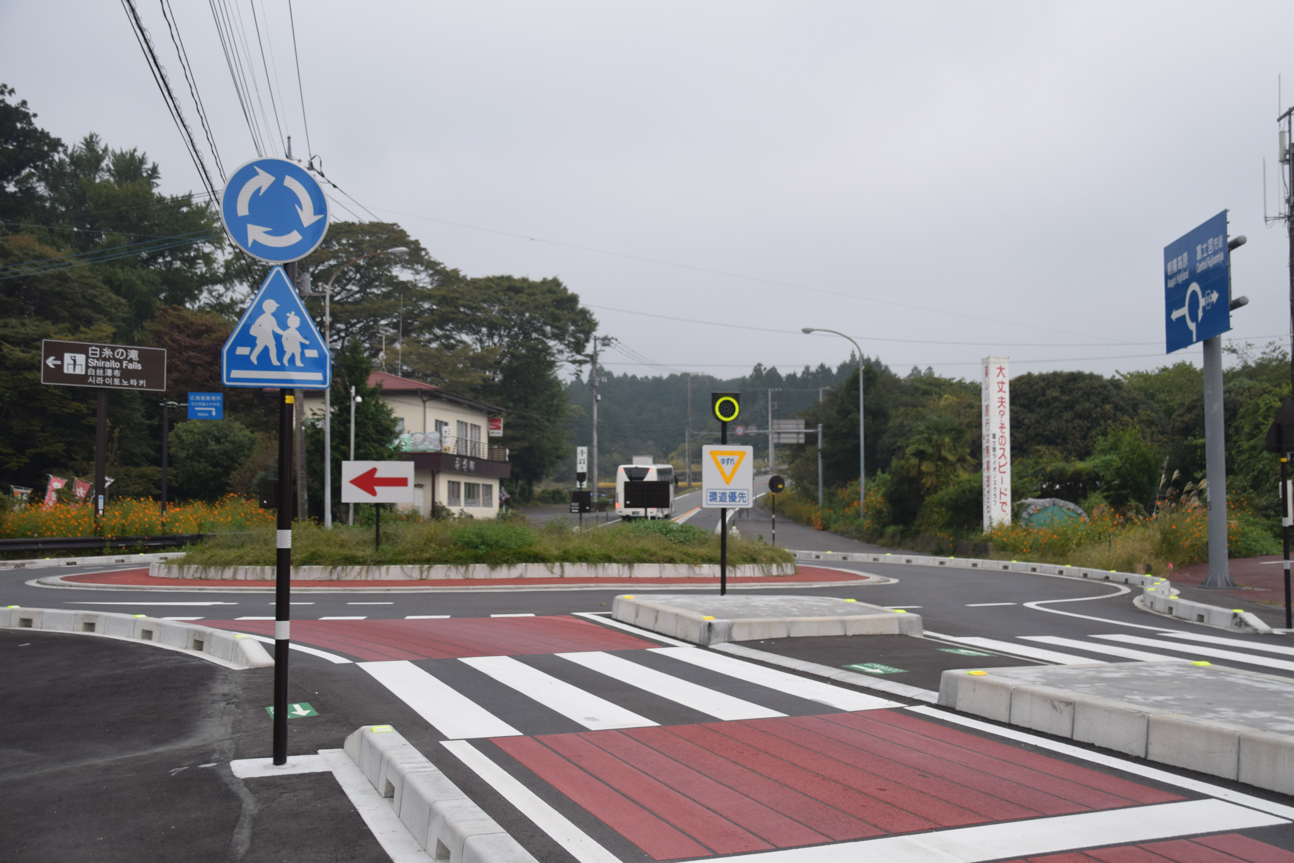 Roundabout near the Shiraito Falls in Fujinomiya City, Shizuoka Prefecture, Japan